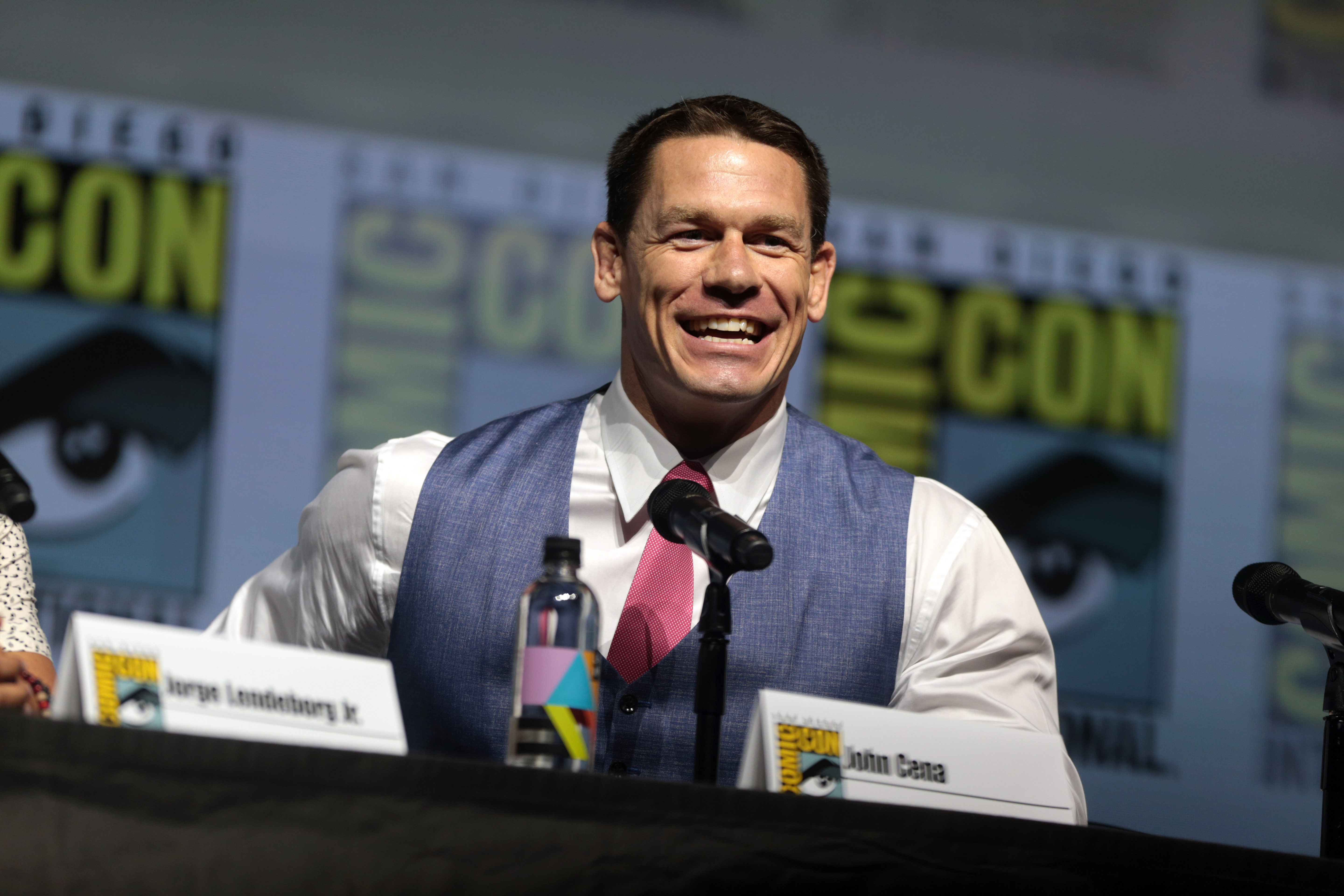 John Cena speaking at the 2018 San Diego Comic Con International, for "Bumblebee", at the San Diego Convention Center in San Diego, California.